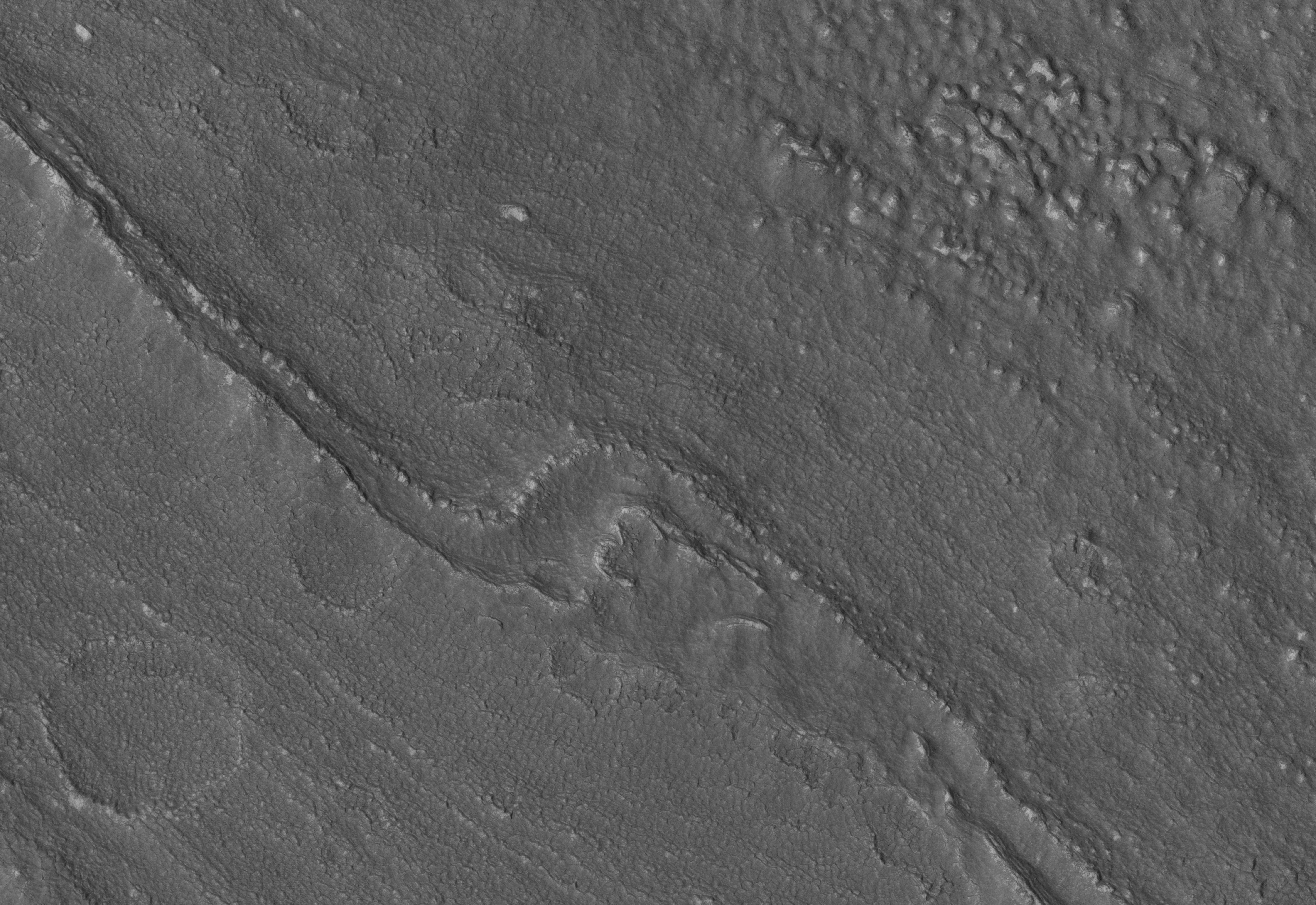 A sinuous feature at the bottom of Reull Vallis photogprahed by Mars Reconnaissance Orbiter.